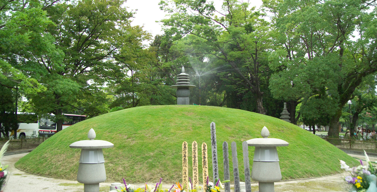 Atomic Bomb Memorial Tower, Peace Memorial Park, Hiroshima, Japan. I took the photo.